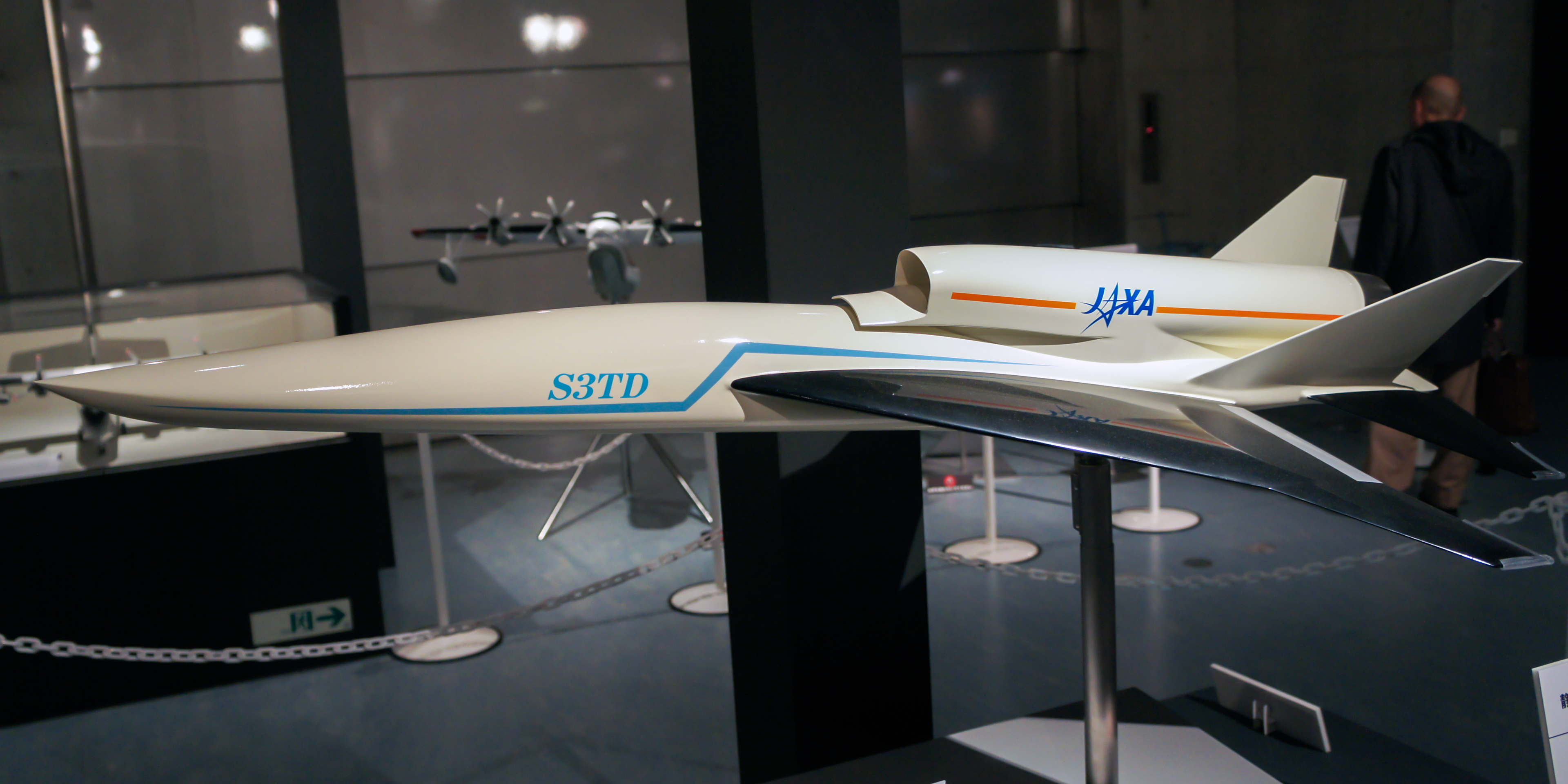 JAXA S3TD (Silent SuperSonic Technology Demonstrator) experimental aircraft